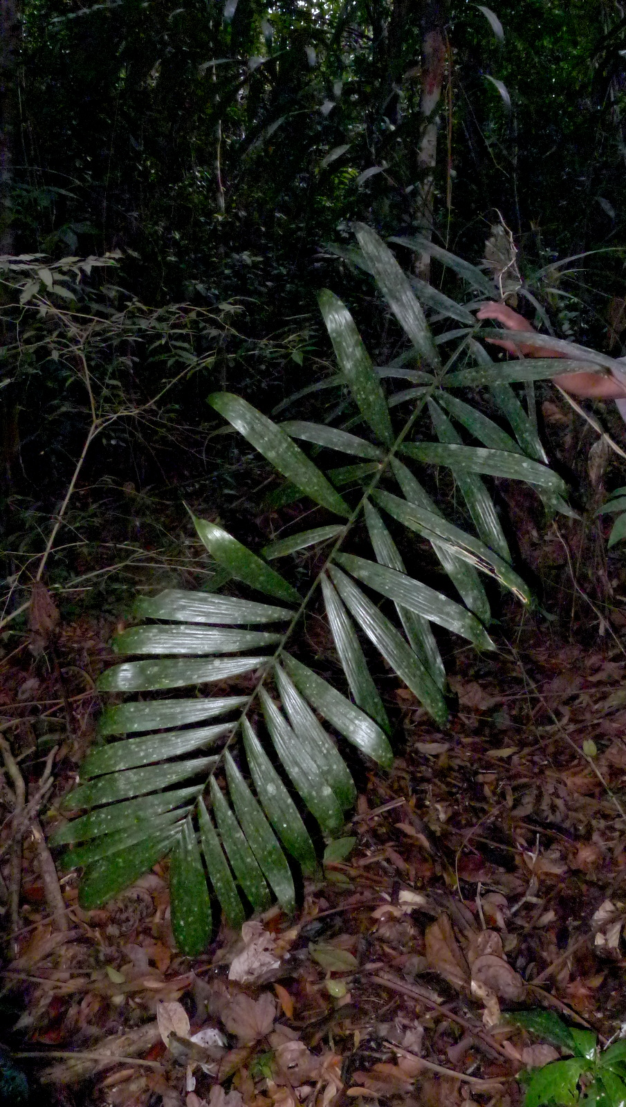 Bactris humilis (Wallace) Burret